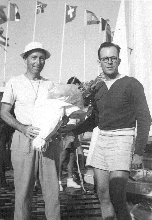 Ted Wells with Art Lippitt crew after winning the 1947 World Snipe Sailing Championship.